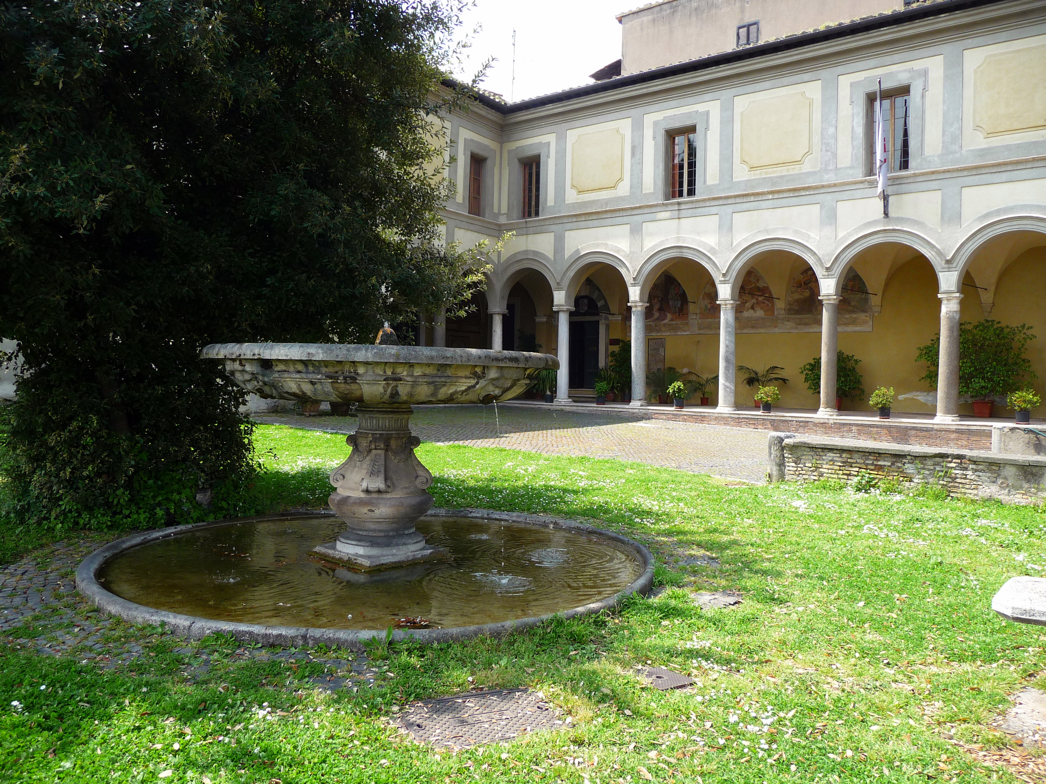 Sant'Onofrio al Gianicolo (Rome) - Cloister